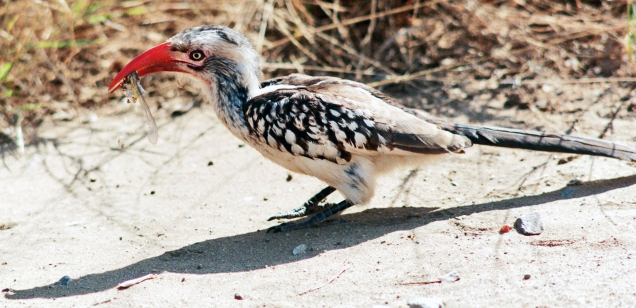 A female Southern Red-billed Hornbill eating a dragonfly on the verge of a road in the Kruger National Park. Females are recognisable by smaller beaks with a red lower mandible. The race concerned is sometimes considered a species, and is distinguishable by the pale eye, pink eye-ring and extensively streaked side of the neck.